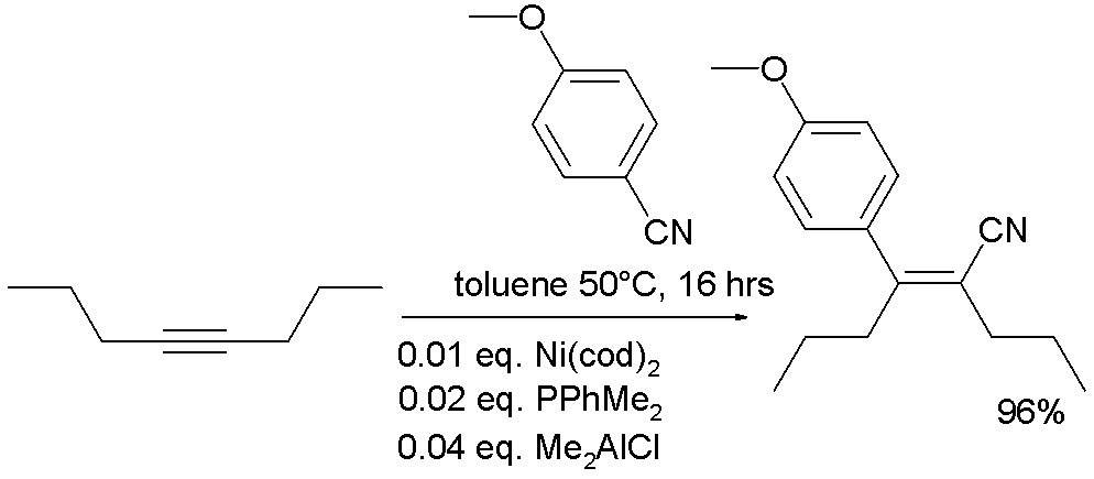 Carbocyanation